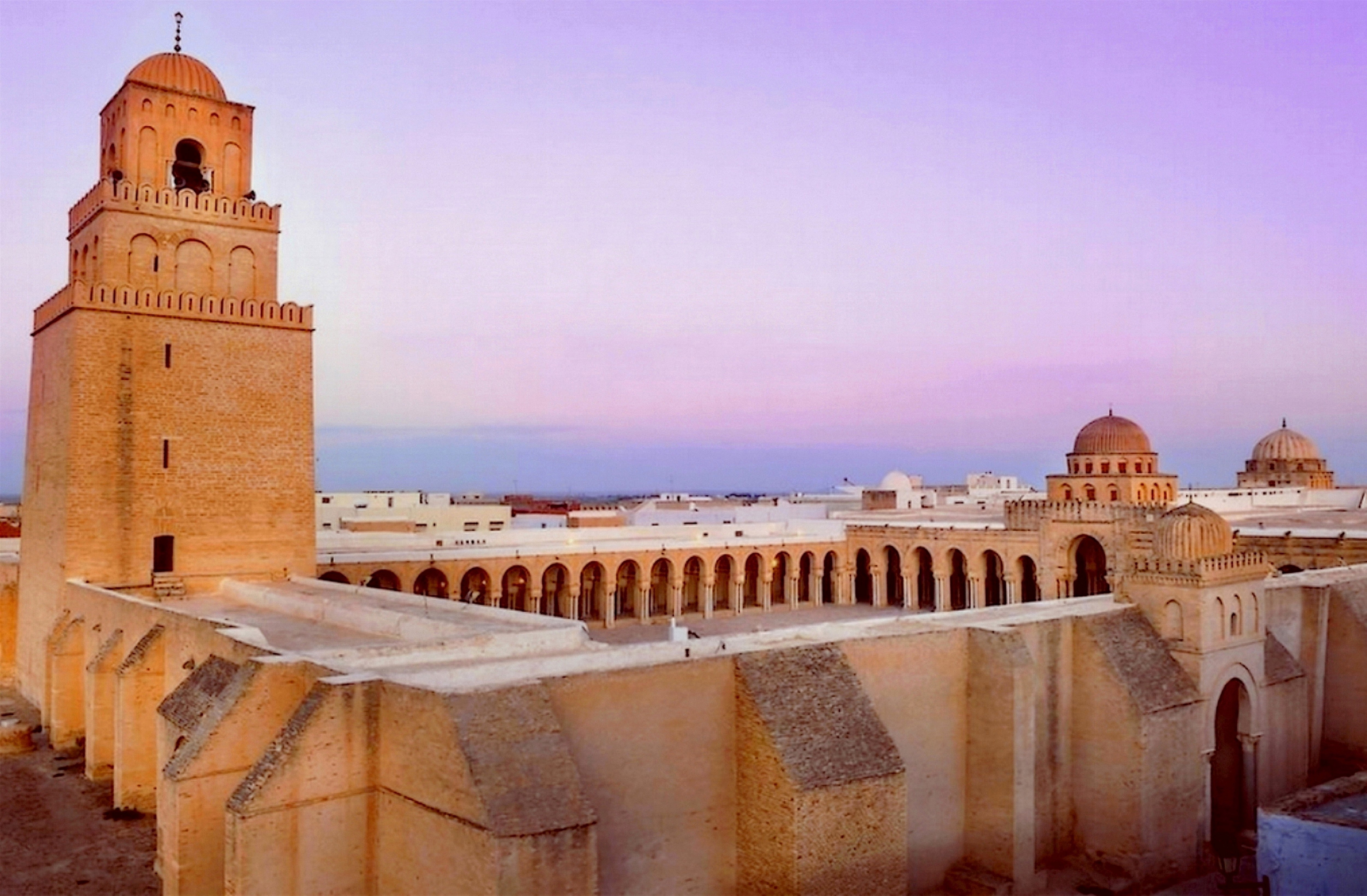 Overview of the Great Mosque of Kairouan, in Tunisia. This mosque, also called the Mosque of Uqba, extends over a surface area of 9,000 square metres. Founded in 670 AD by the Arab general and conqueror Uqba ibn Nafi, it dates, in its present form, from the 9th century (definitively rebuilt in 836 AD under the Aghlabid dynasty). Besides the fact of being the oldest place of worship in the Muslim West, the Great Mosque of Kairouan represents a remarkable example of Islamic architecture.